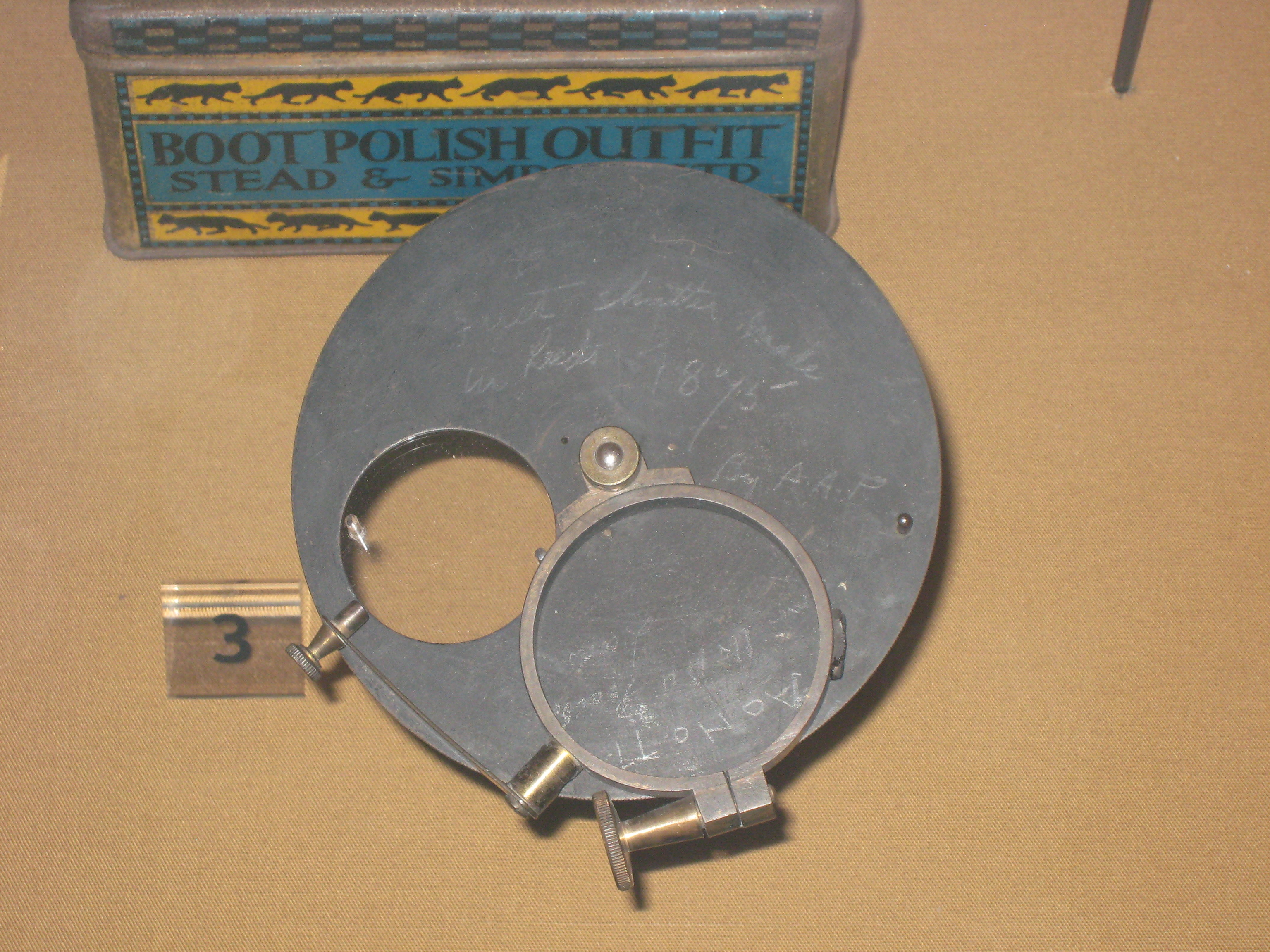 Camera shutter in Leeds City Museum, the first "instant" one, Marked on it "Fast shutter made in Leeds 1875 by A. A. P." and "Ao No 77"